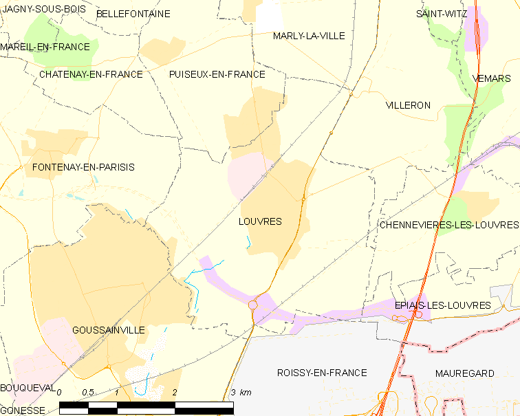 Map of French municipality Louvres